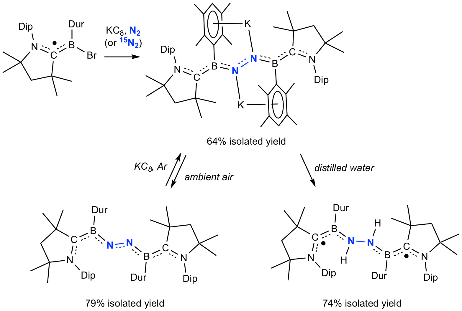 Reaction scheme for the dinitrogen activation by a transient borylene species, and the subsequent aerobic oxidation and hydration of the product.